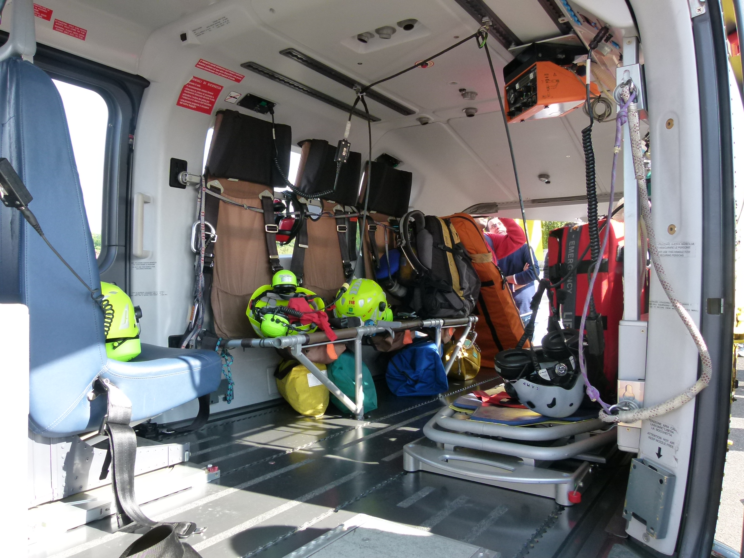 Eurocopter EC 145, Italian EMS air ambulance I-FNTS. The helicopter operates for the Lombardy Emergency Medical Service Agency, and is based in Brescia.